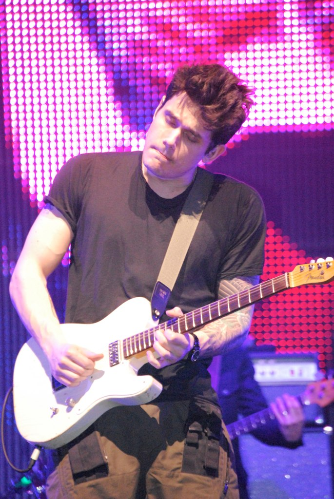 John Mayer performing live at State Farm Arena in Atlanta, Georgia in March 17, 2010. The concert was part of the Battle Studies World Tour.